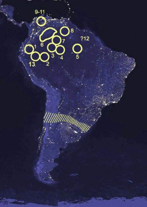 (1) L. luckae (Jurassic–Cretaceous sediments below active volcano Tungurahua, 2,000–3,000 m asl, deforested zone, originally mountain rainforest); (2–5) Lucihormetica seabrai, Lucihormetica tapurucuara, Lucihormetica amazonica, Lucihormetica fenestrata (Paleogene–Neogene sediments, Amazon river basin, ≤300 m asl, canopy lowland forest); (6–7) Lucihormetica verrucosa, Lucihormetica subscincta (Quarternary, Tertiary, Jurassic; mostly ≤300 m asl, Savanna–Llanos); (8) Lucihormetica grossei (Middle Proterozoic rocks (1.6– 1.9 Ga), Guayana upland, ≤5,000 m asl, Canopy Gallery forest); (9–11) Lucihormetica cerdai, Lucihormetica zomproi, Lucihormetica osunai (Quarternary sediments, ≤1,000 m asl, oases in semideserts of Salinas—forested mountain slopes of East Cordillera). (12) Lucihormetica interna (unknown locality in Brazil; unlabelled circle), undetermined species from lowland forest in Peru (13). Interrupted line is the southern margin of occurrence of Pyrophorus.